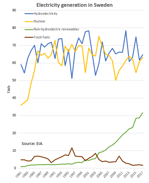 Sweden electricity generation chart for 1981-2017 (EIA data - Excel graph)